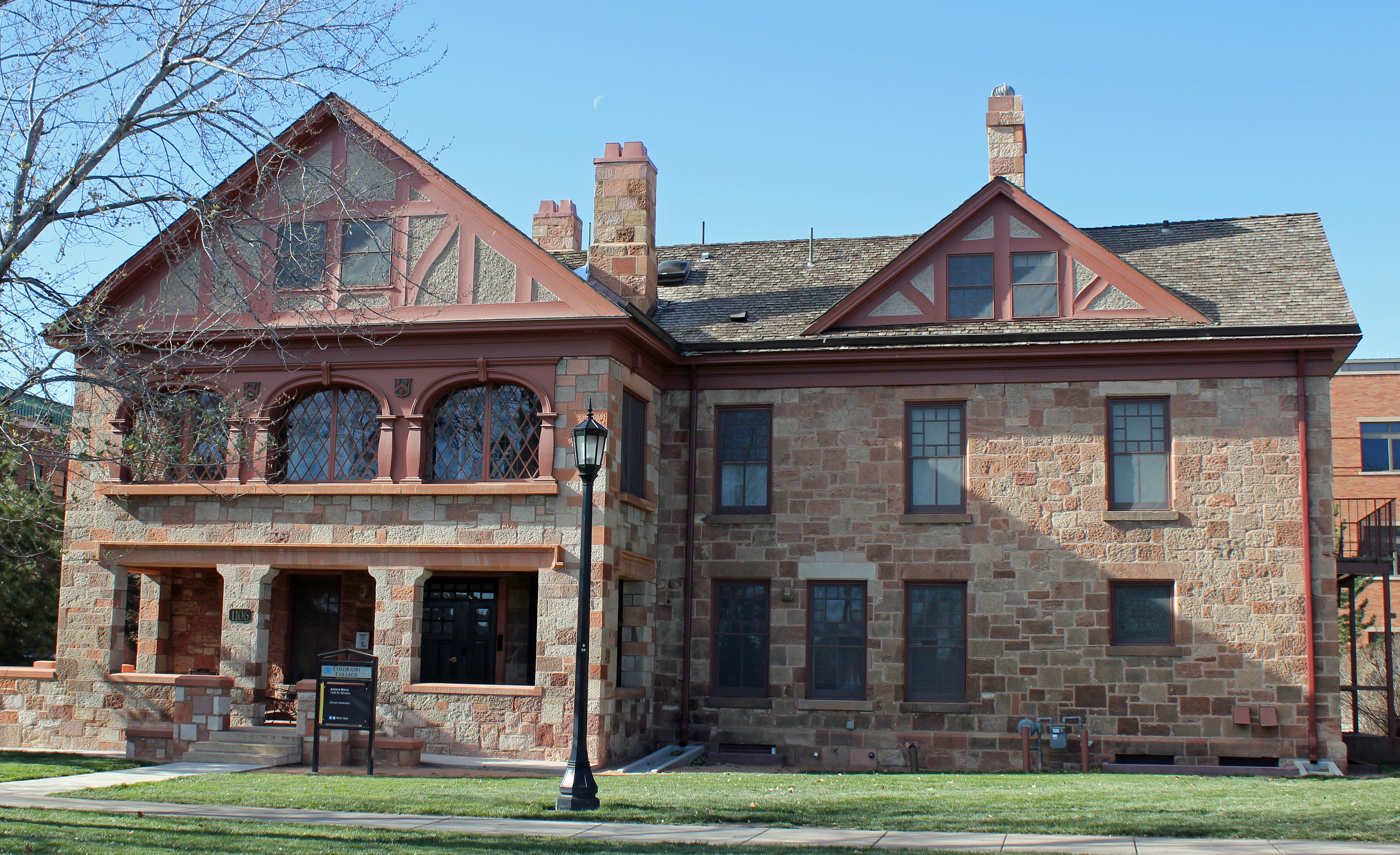 Edgeplain, a house at 1160 North Nevada Avenue, on the Colorado College Campus, in Colorado Springs, Colorado. Listed on the National Register of Historic Places, the house is also called Arthur House because the son of President Chester Arthur, Chester Alan Arthur II owned the house in the early twentieth century.